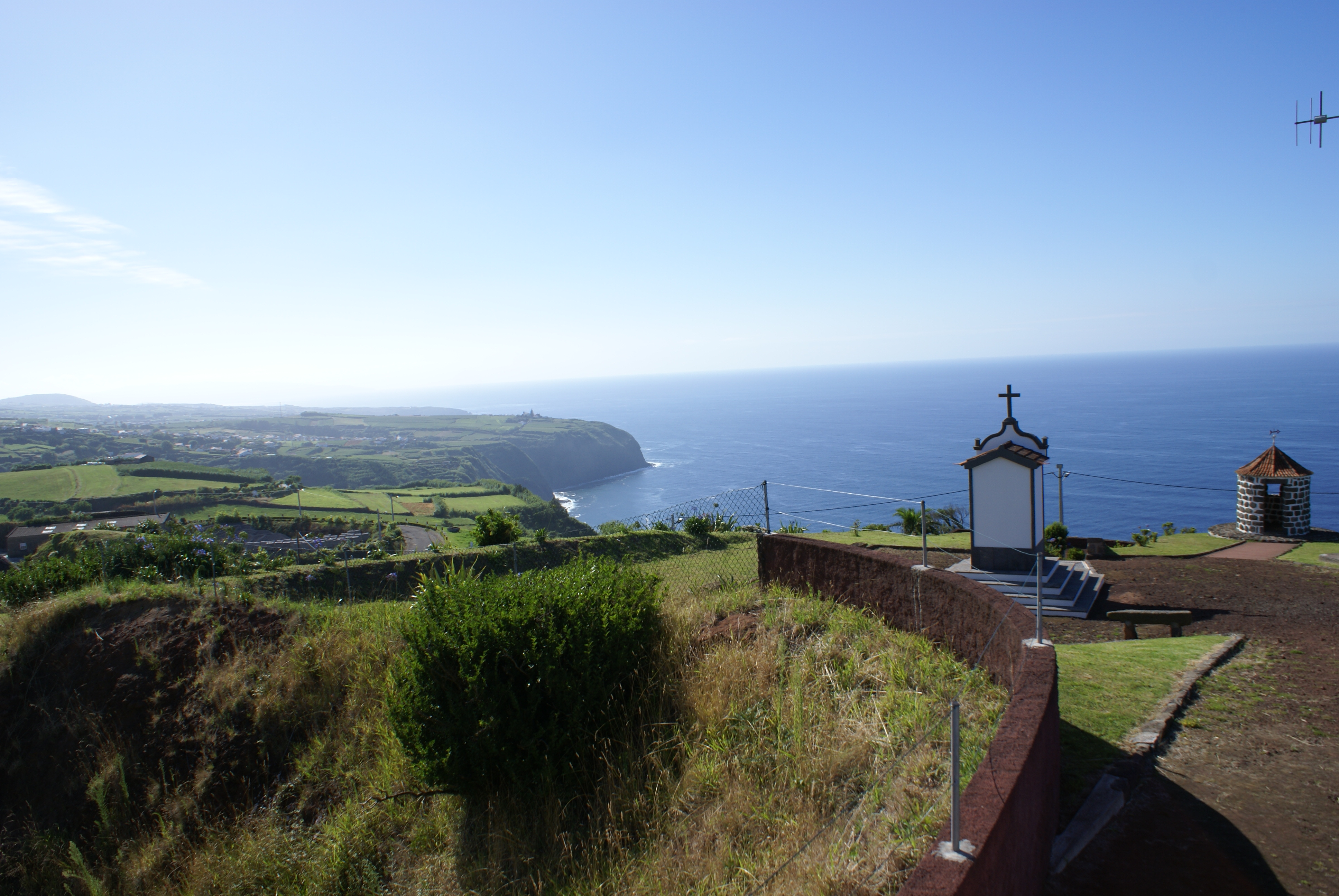 A view from the chapel at the lookout of Viagia da Baleia, civil parish of Algarvia, municipality of Nordeste (Azores), Portugal